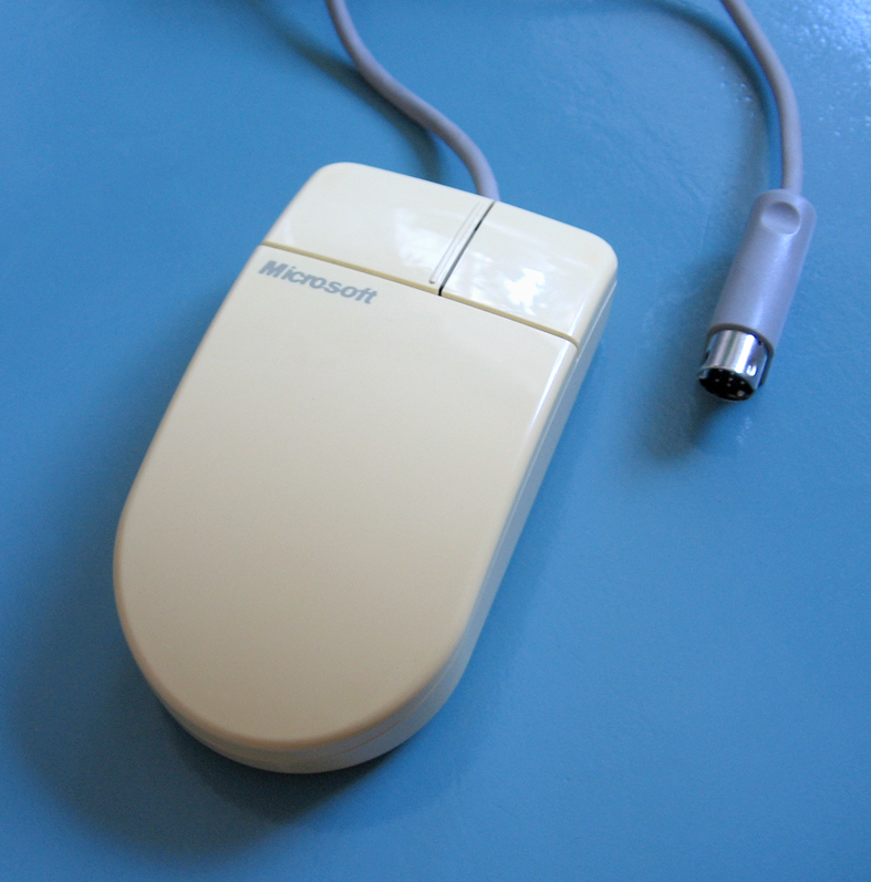 Microsoft InPort BUS Mouse, one of the earliest computer mice for PCs. Other information Uploaded to replace that was very low quality.